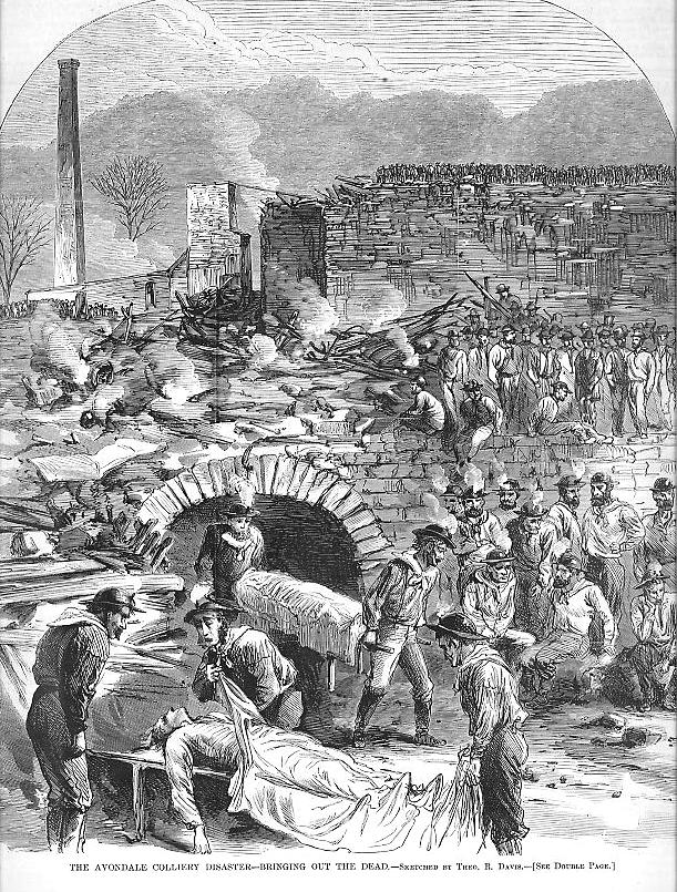 A scene from after the Avondale Mine Disaster; "Bringing out the dead". Originally published in the September 25, 1869 issue of Harper's Weekly.